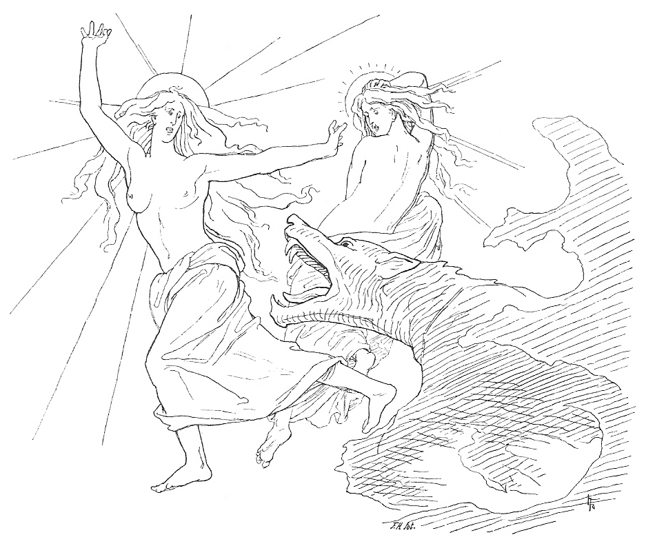 A depiction of the goddess Sól, her daughter, and the wolf Fenrir (1895) by Lorenz Frølich. Title not given in work.